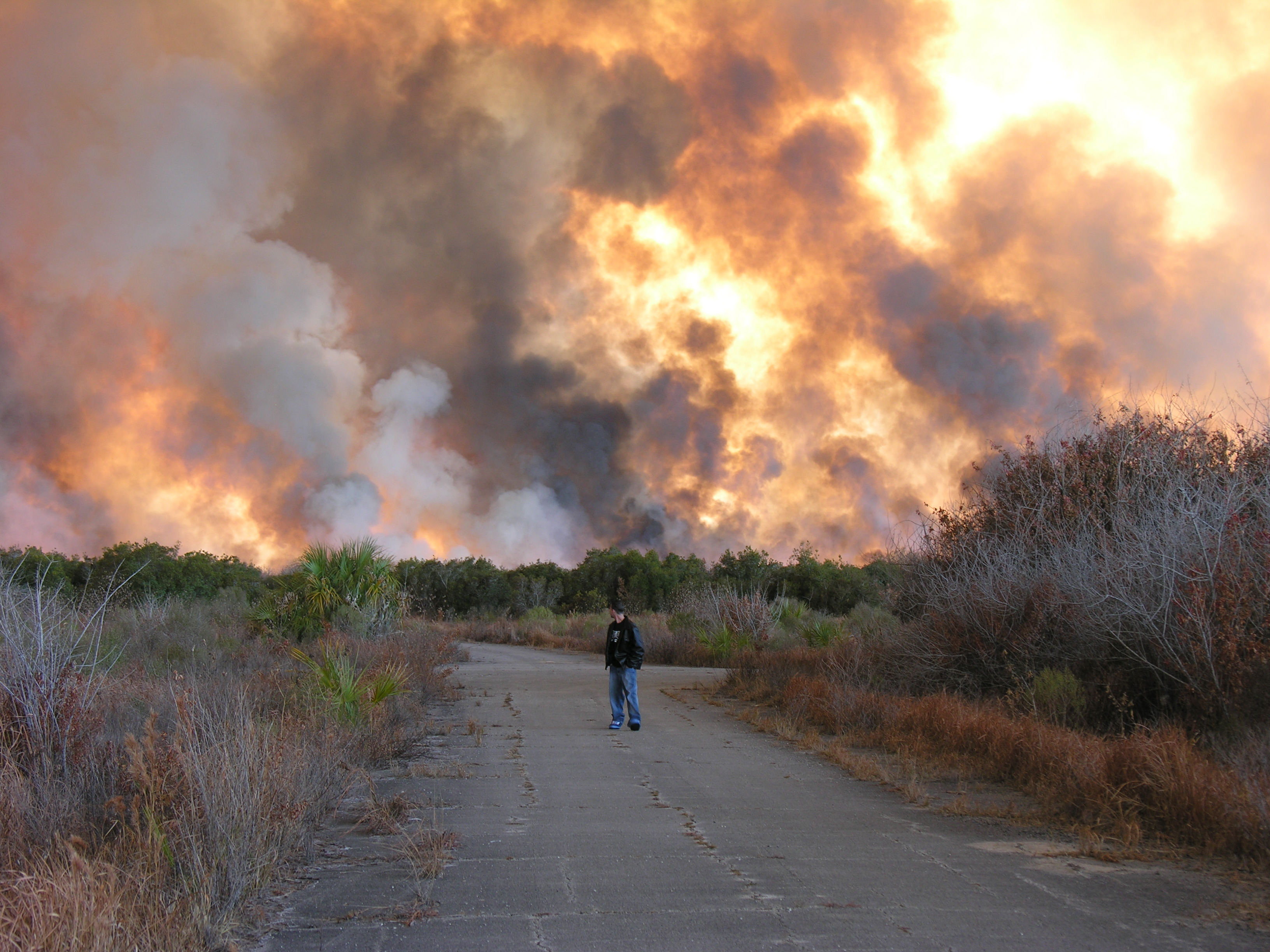 brush fire at the compound